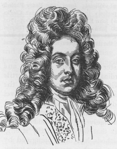 Henry Purcell (September 10 (?), 1659 (?)–November 21, 1695), a Baroque composer.